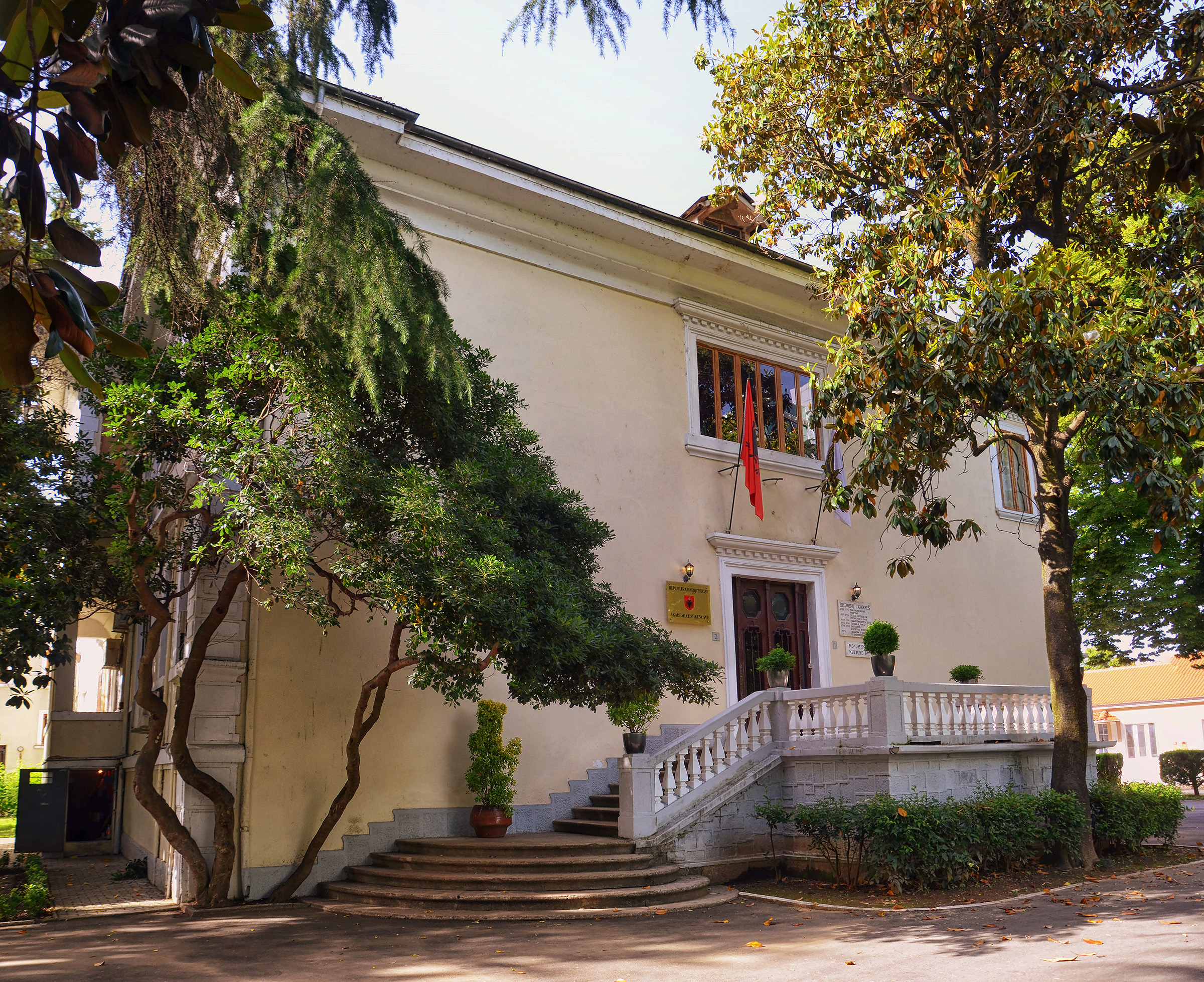 The Academy of Sciences of Albania